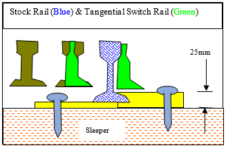 Rail Turnout Switch Blades New Tangential showing the two rail profiles. The stock rail (blue) is made of ordinary rails. The movable switch rail (green) is made of a special shorter and stubbier rail, which is trimmed to fit under the stock rail. Spikes (purple) secure the baseplate (yellow) to the sleeper (red). The tangential rail (brown) is trimmed to form the switch rail. Overall, tangential switches with their thick cross-section rails are strong.